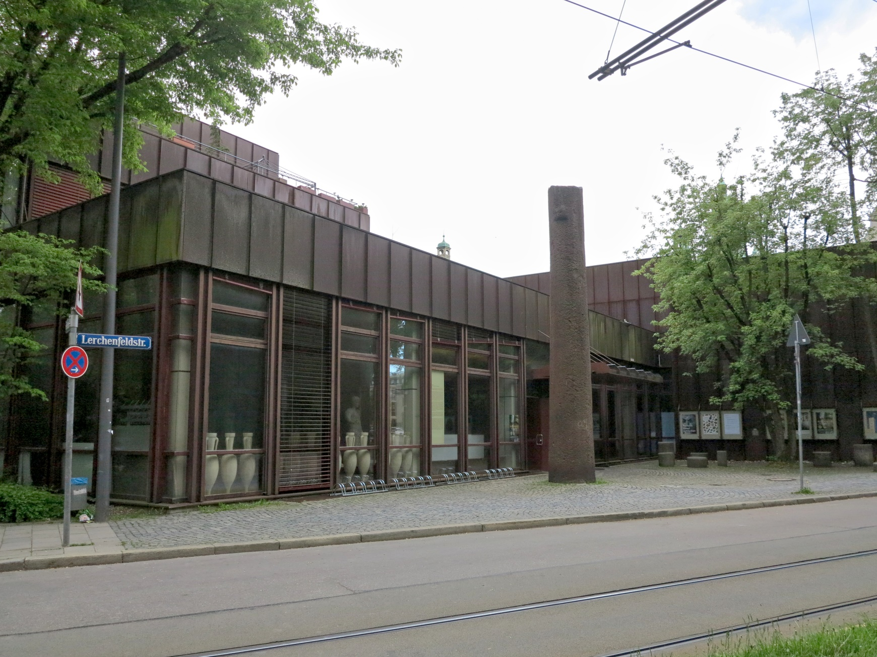 Museum Archäologische Staatssammlung